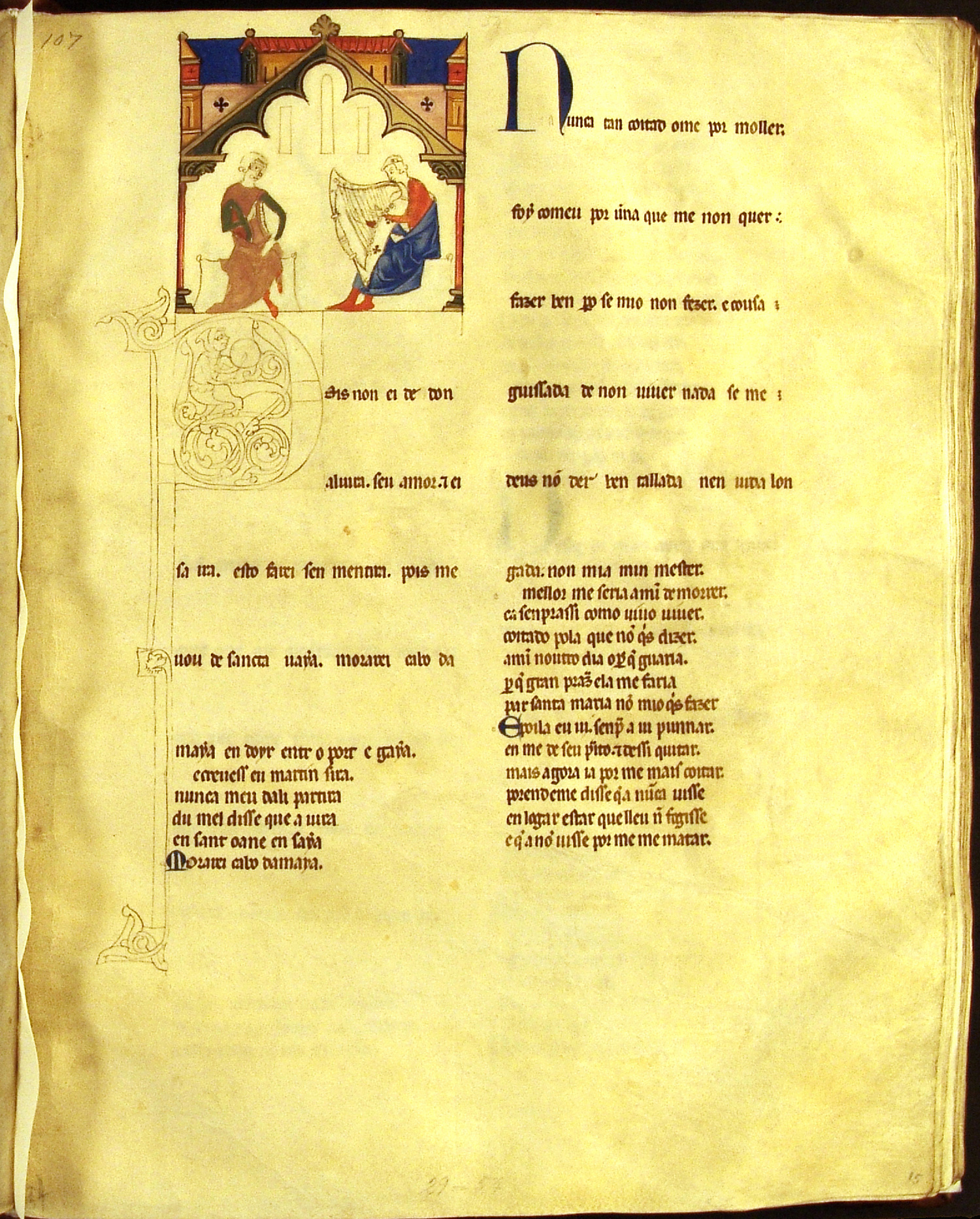 Cancioneiro da Ajuda manuscripts